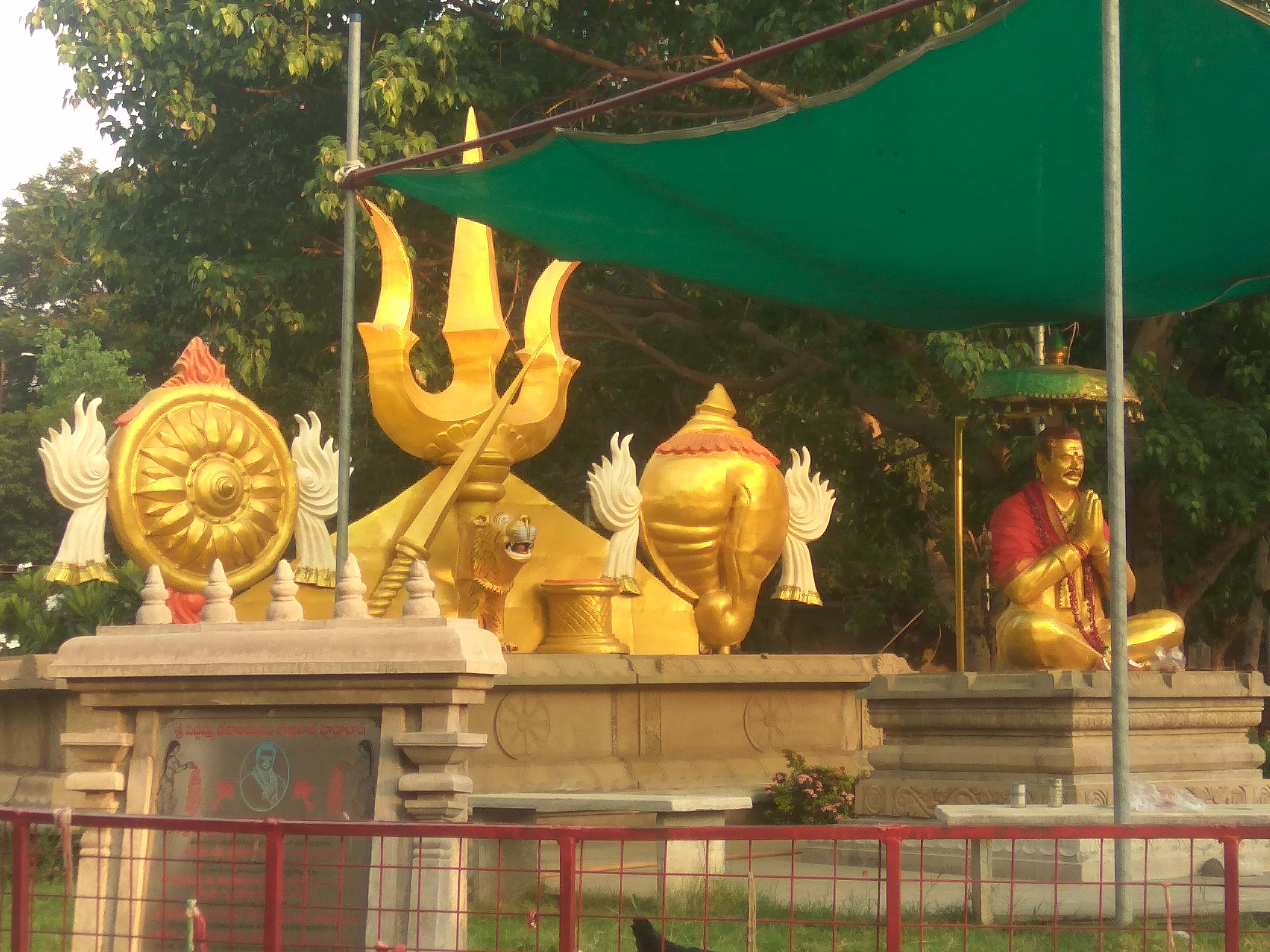 Peddamma temple - Hyderabad